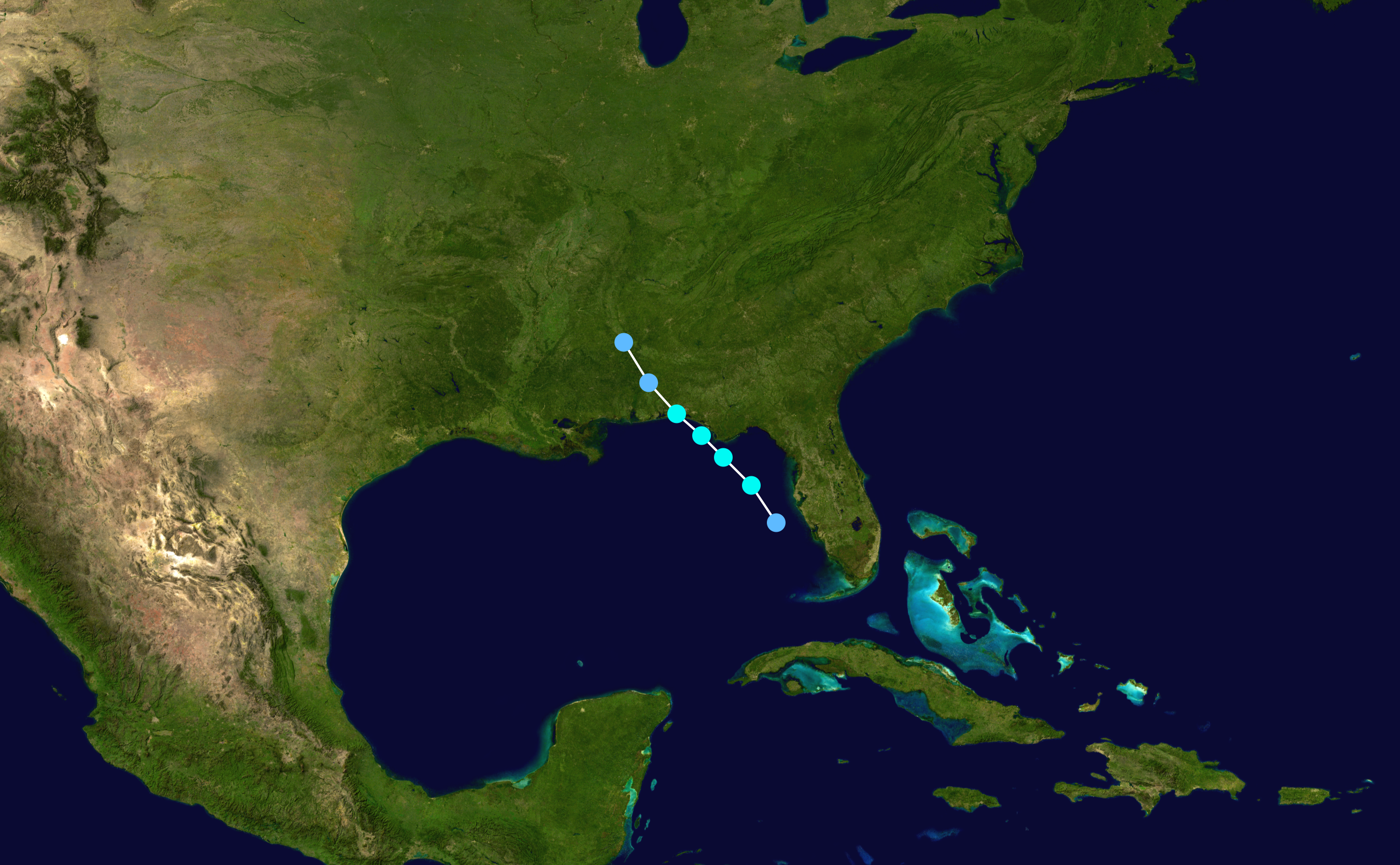 Track map of Tropical Storm Claudette of the 2009 Atlantic hurricane season. The points show the location of the storm at 6-hour intervals. The colour represents the storm's maximum sustained wind speeds as classified in the Saffir–Simpson scale (see below), and the shape of the data points represent the nature of the storm, according to the legend below. Saffir–Simpson scale Tropical depression≤38 mph≤62 km/h Category 3111–129 mph178–208 km/h Tropical storm39–73 mph63–118 km/h Category 4130–156 mph209–251 km/h Category 174–95 mph119–153 km/h Category 5≥157 mph≥252 km/h Category 296–110 mph154–177 km/h Unknown Storm type Tropical cyclone Subtropical cyclone Extratropical cyclone / Remnant low / Tropical disturbance / Monsoon depression